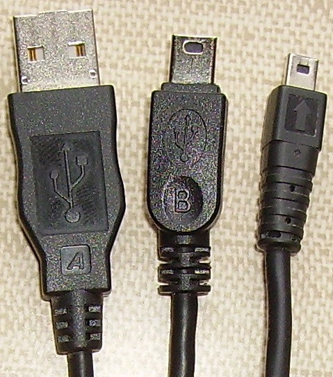 Three USB connectors: standard Type A plug; mini-B plug; micro plug (about 5 mm wide) for connection to a digital camera.